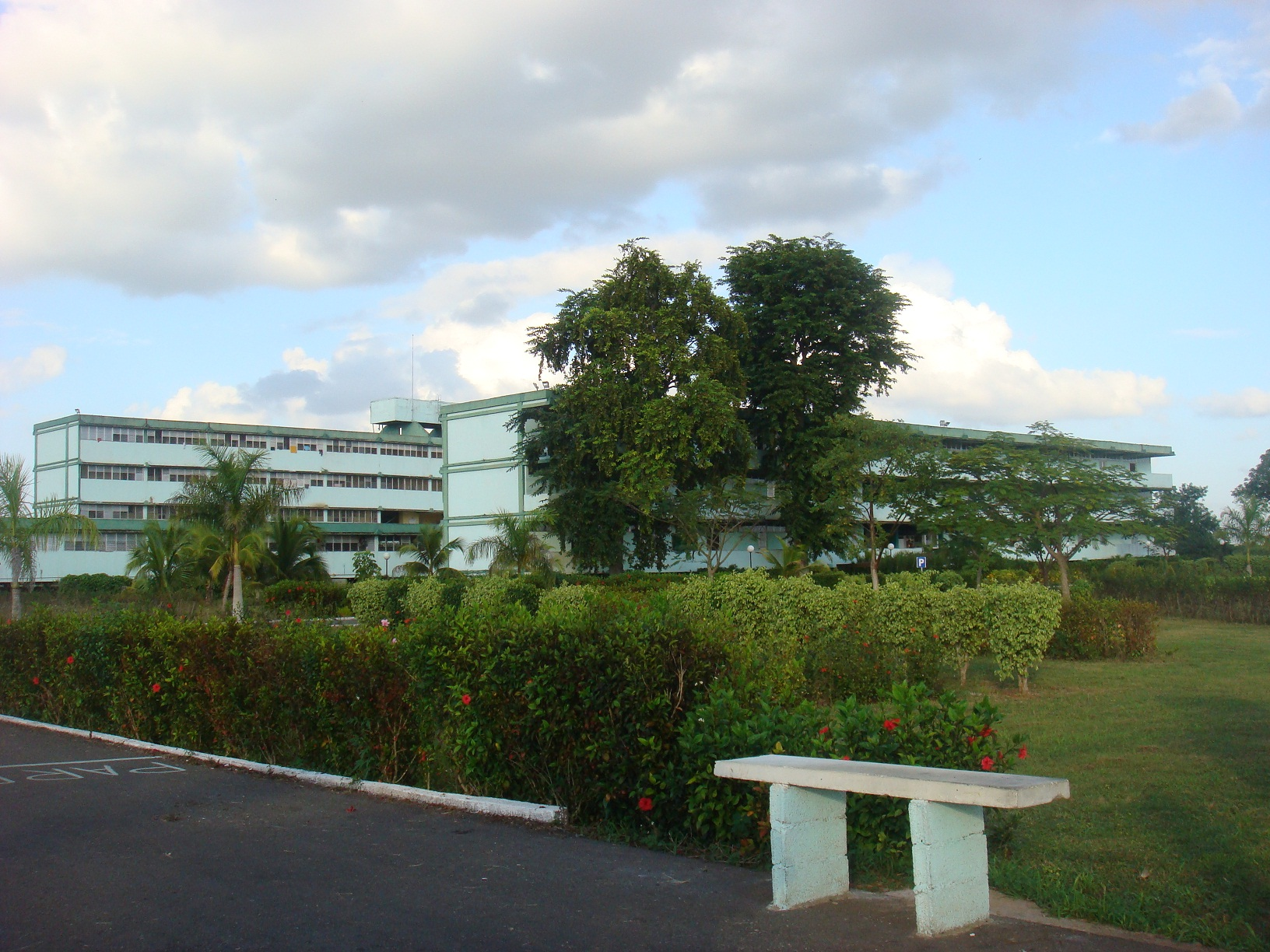 Jose Maria Aguirre front view. Front view of whole campus from entry.